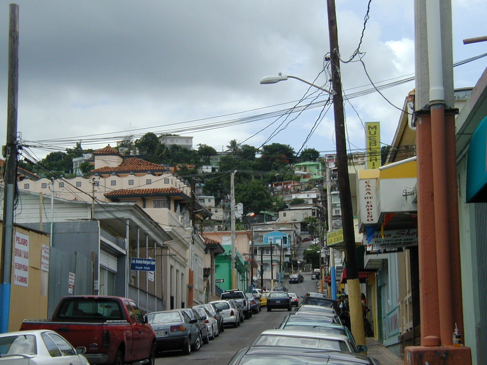 Street in Yauco barrio-pueblo